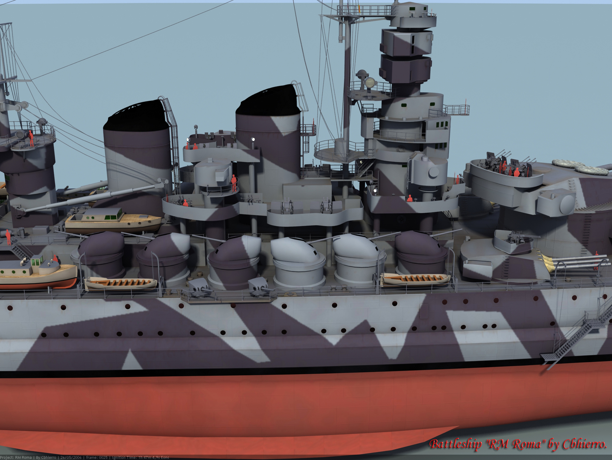 a 3D rendering of the different views of the Regia Marina Roma battleship